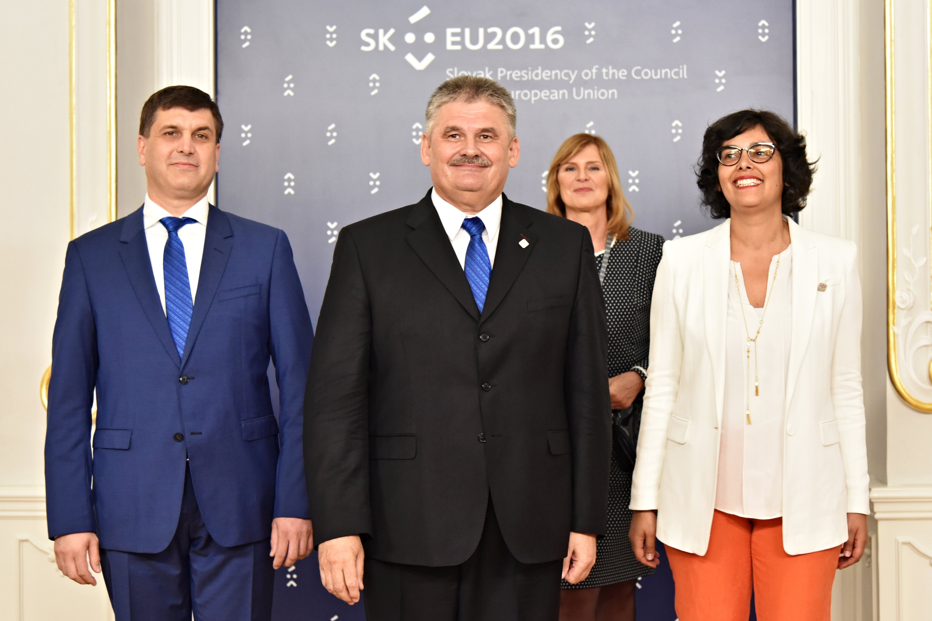 France, Mrs. Myriam El Khomri, Minister of Labour Informal Meeting of Ministers for Employment and Social Policy Photo Halime Sarrag